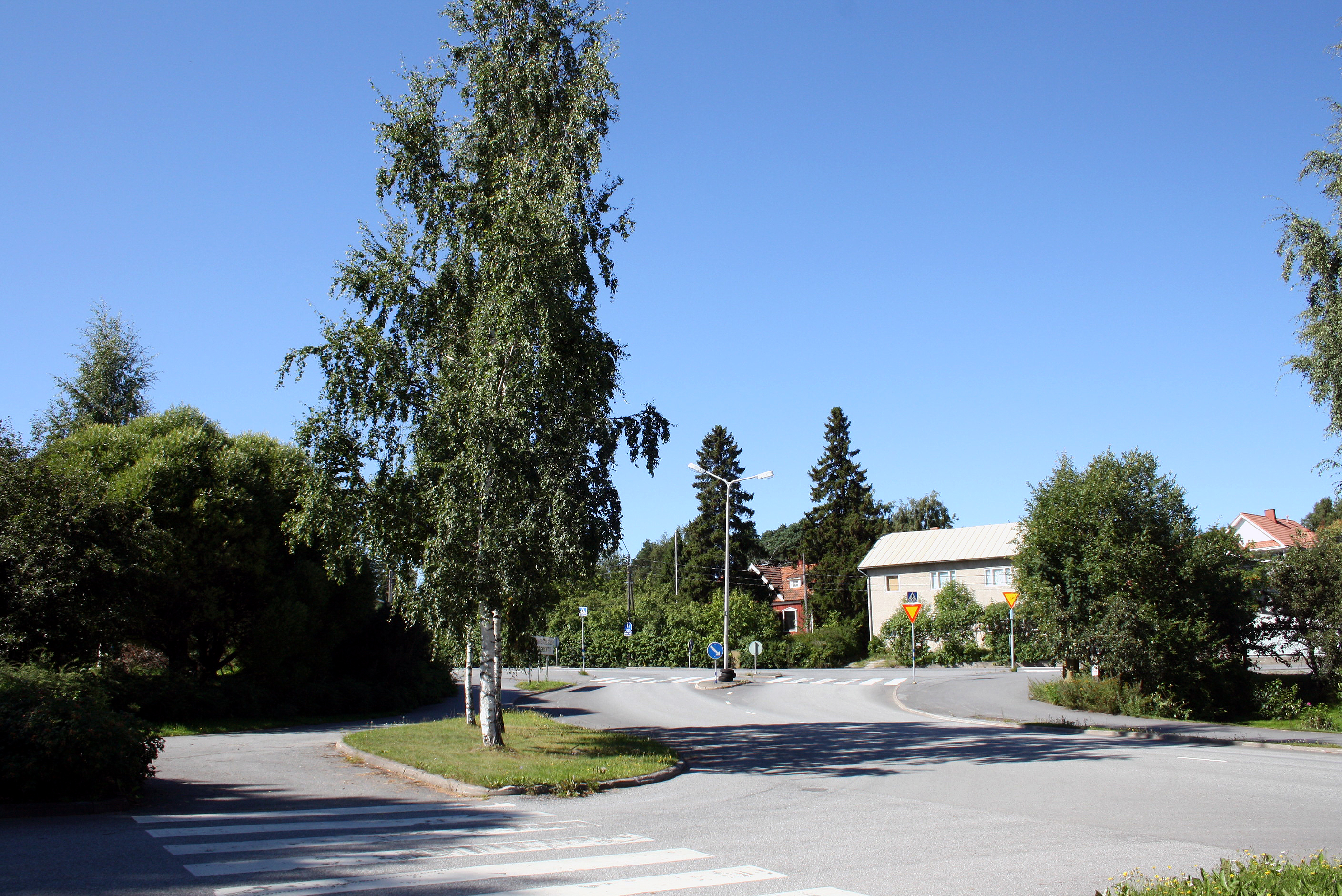 Torkinmäki in Kokkola, Finland.